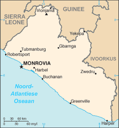 An Afrikaans map of Liberia.